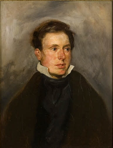 Portrait of Thales Fielding (1793–1837), English water-colour painter.